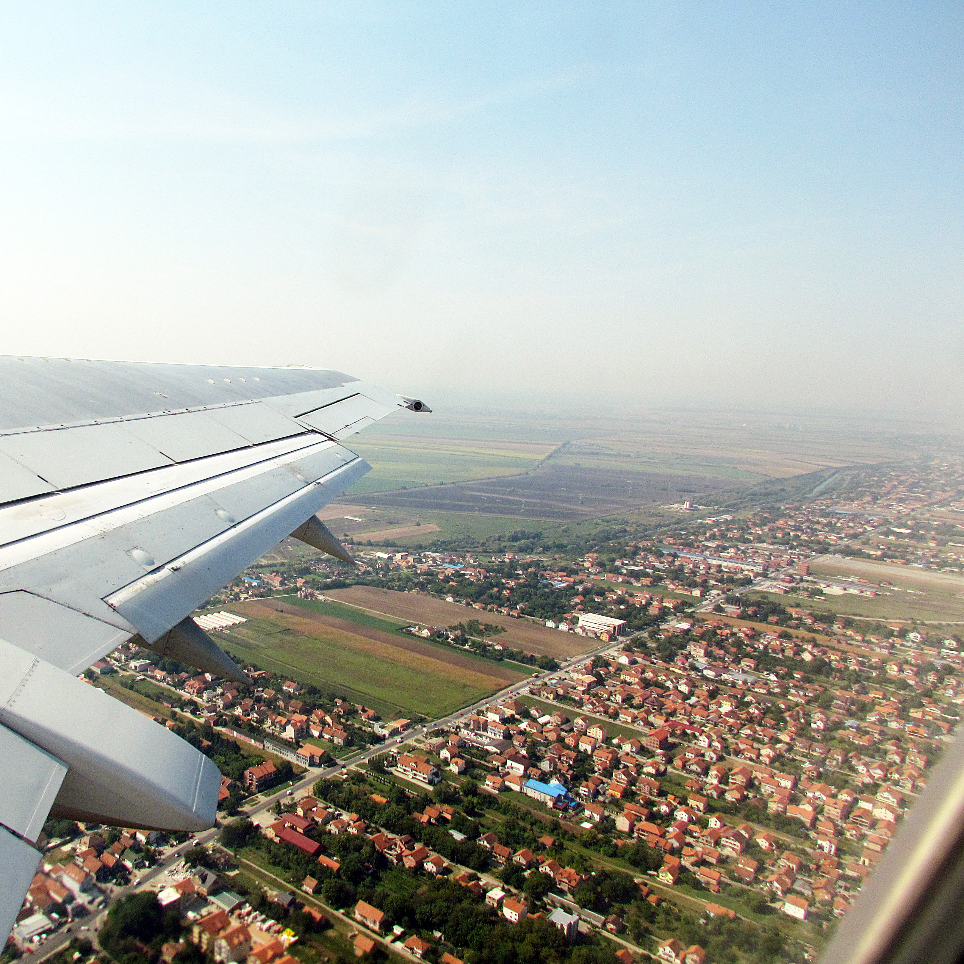 Ledine (Belgrade suburb) from air